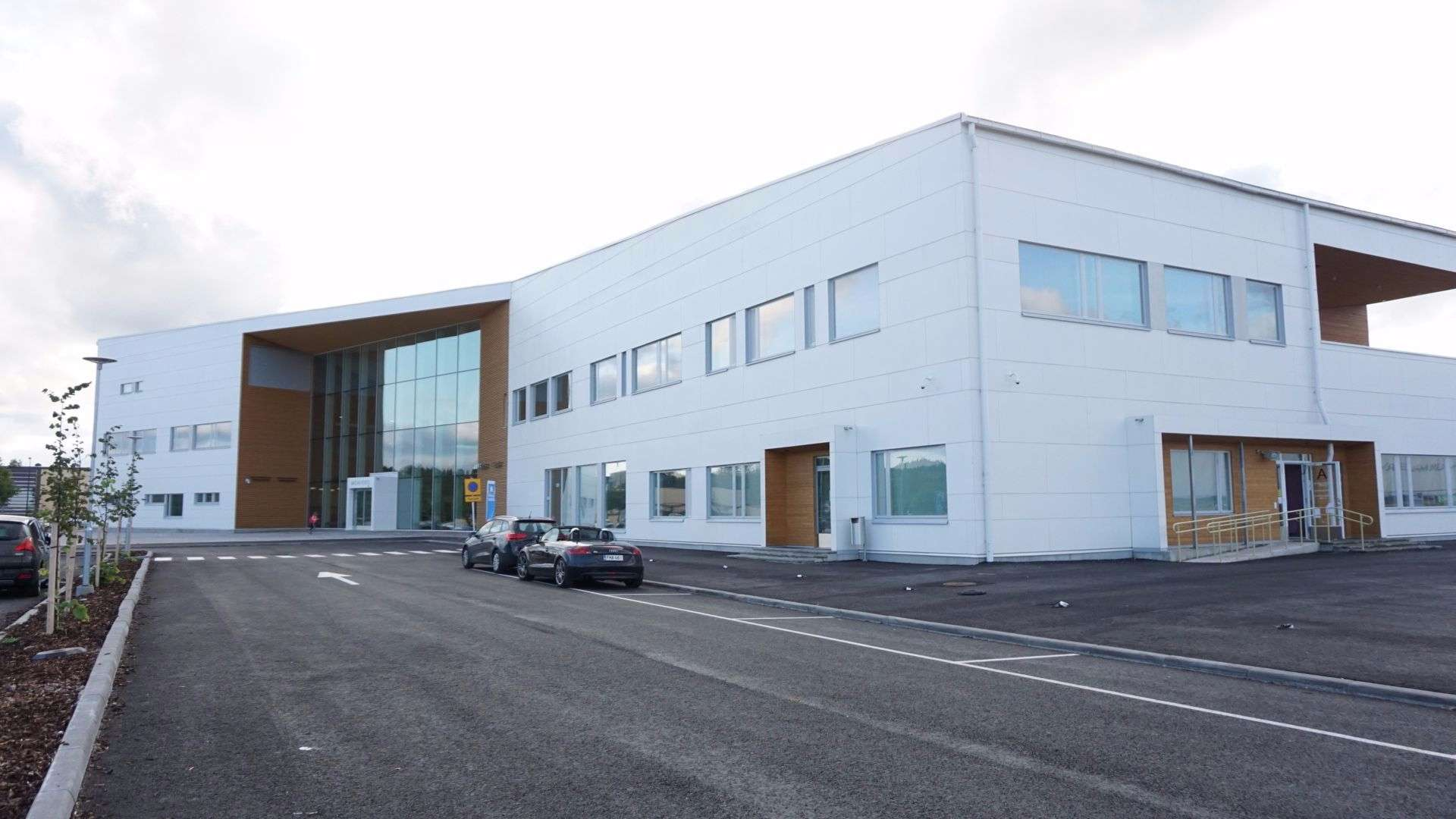 Monikko